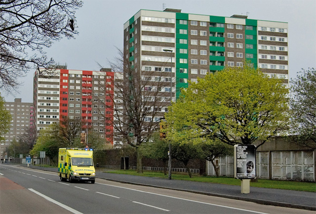 Great Thornton Street flats, Hull. Looking across Anlaby Road towards the flats which were opened in 1965. For a picture of the flats under construction in 1963, see 1249477. The blocks underwent renovation in 2007, acquiring their current colour scheme.